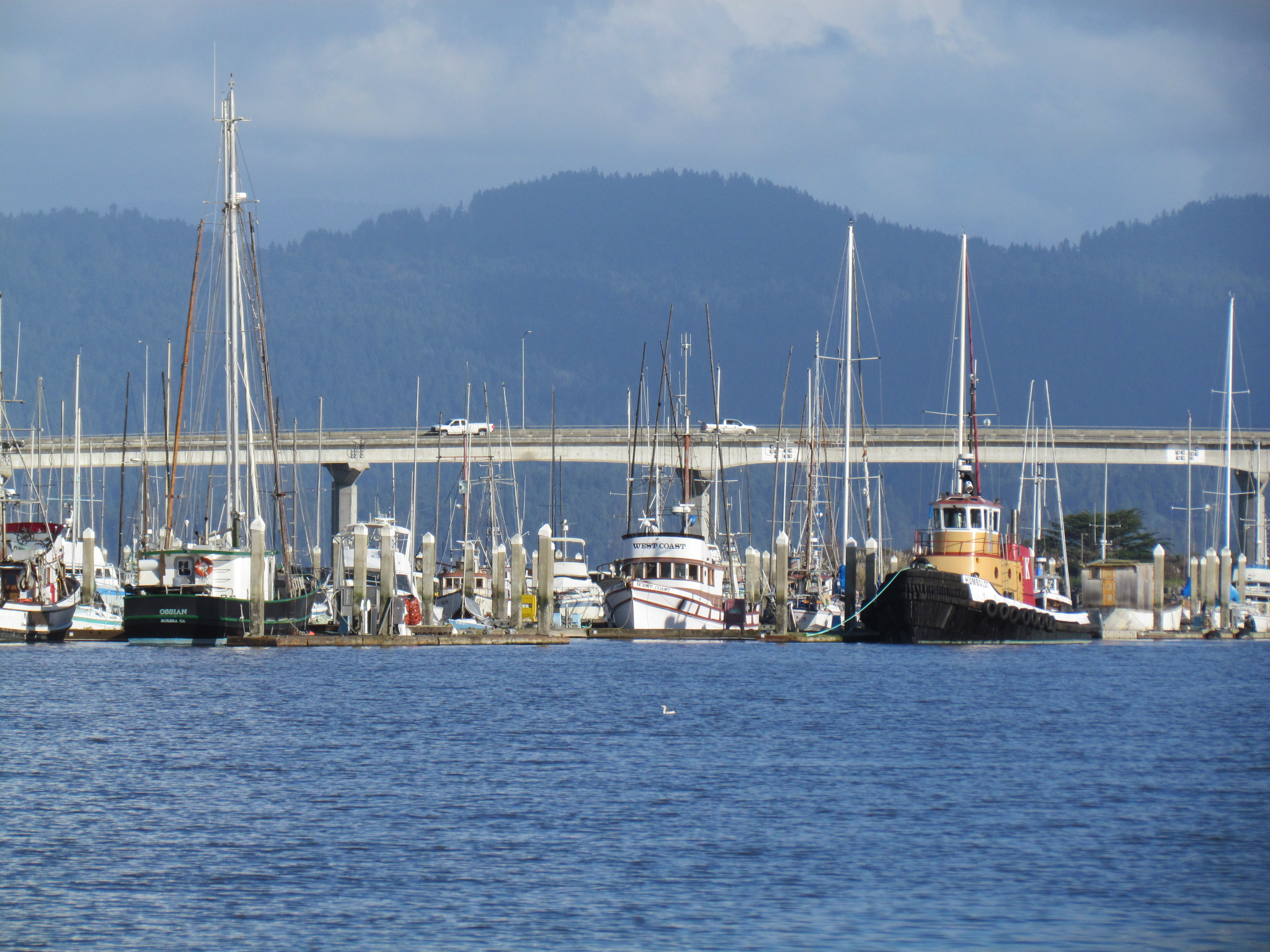 Looking east at the Woodley Island Marina with Highway 255 (Samoa Bride) in background.